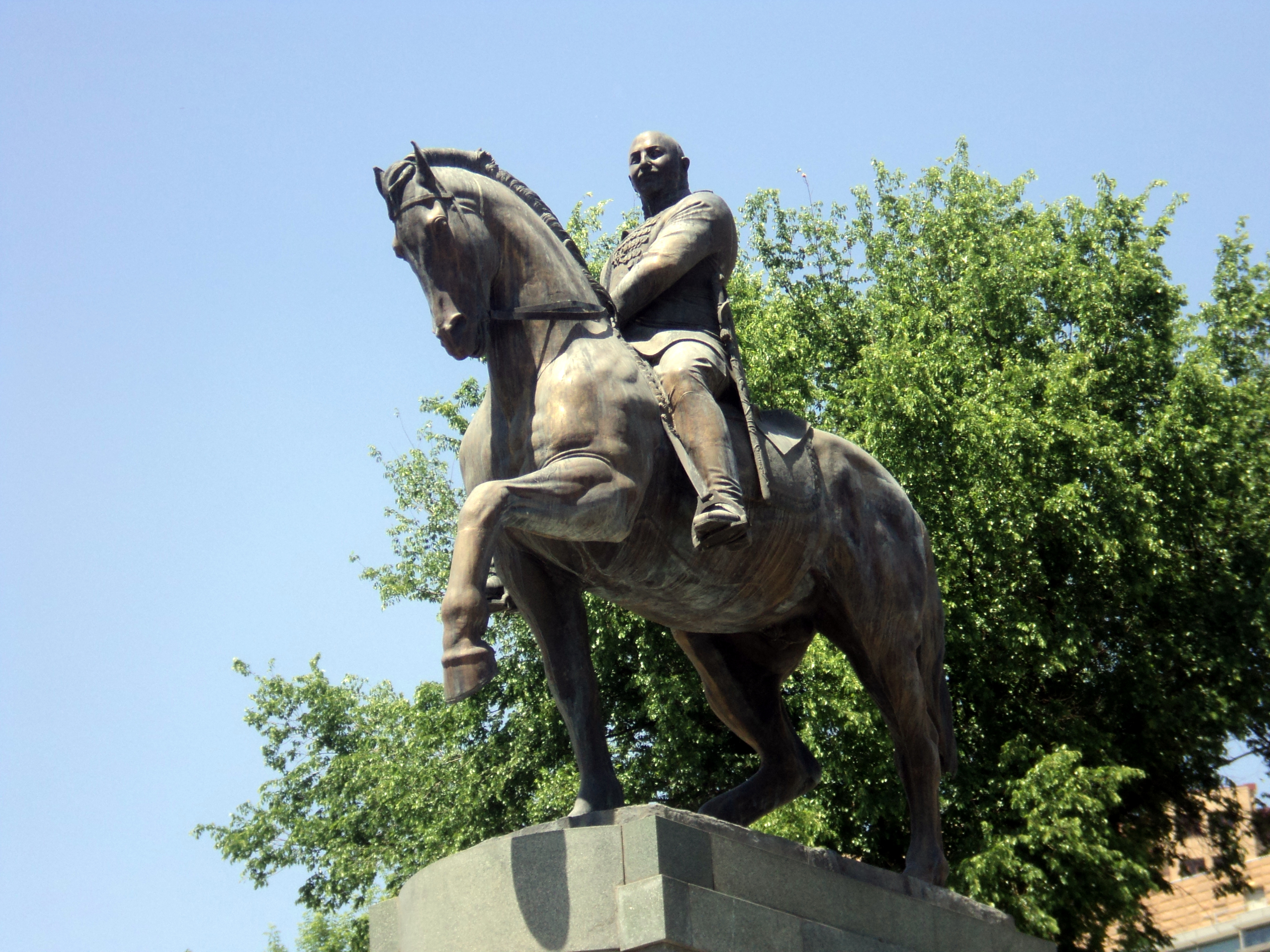 Հովհաննես Բաղրամյան - բրոնզ և գրանիտ, հեղինակ` Նորայր Կարգանյան, ճարտարապետ՝ Է. Արևշատյան։